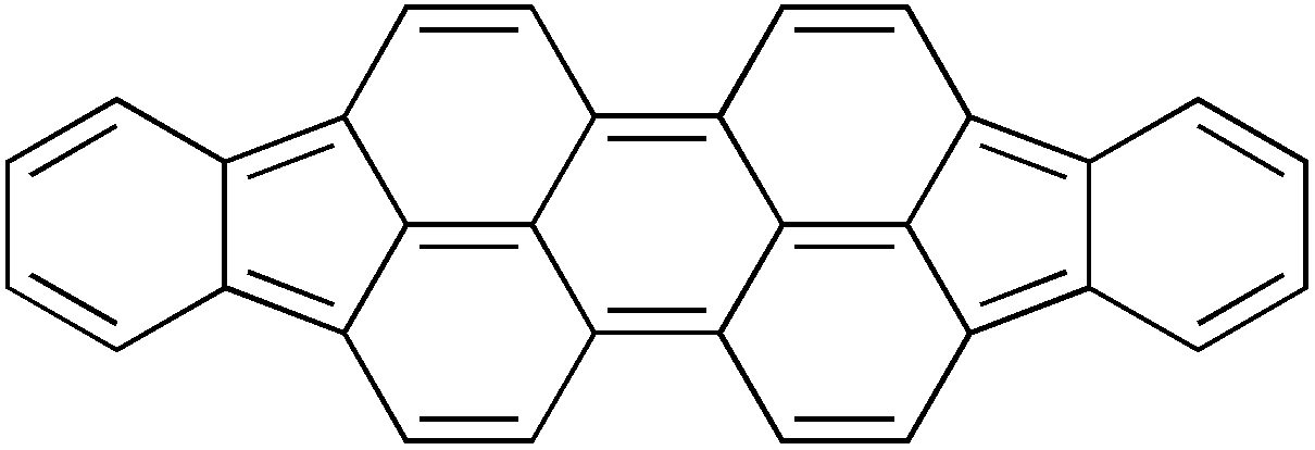 chemical structure of periflanthene; perflanthen; diindenoperylene